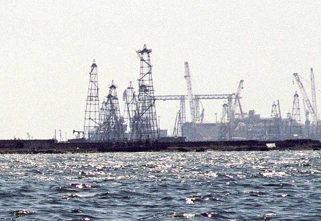 Oil wells in Oil Rocks. Azerbaijan